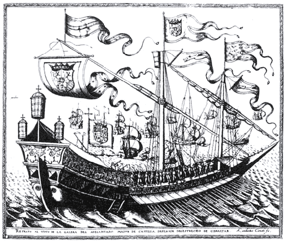 Galley of the Adelantado Mayor of Castile. XVI century.